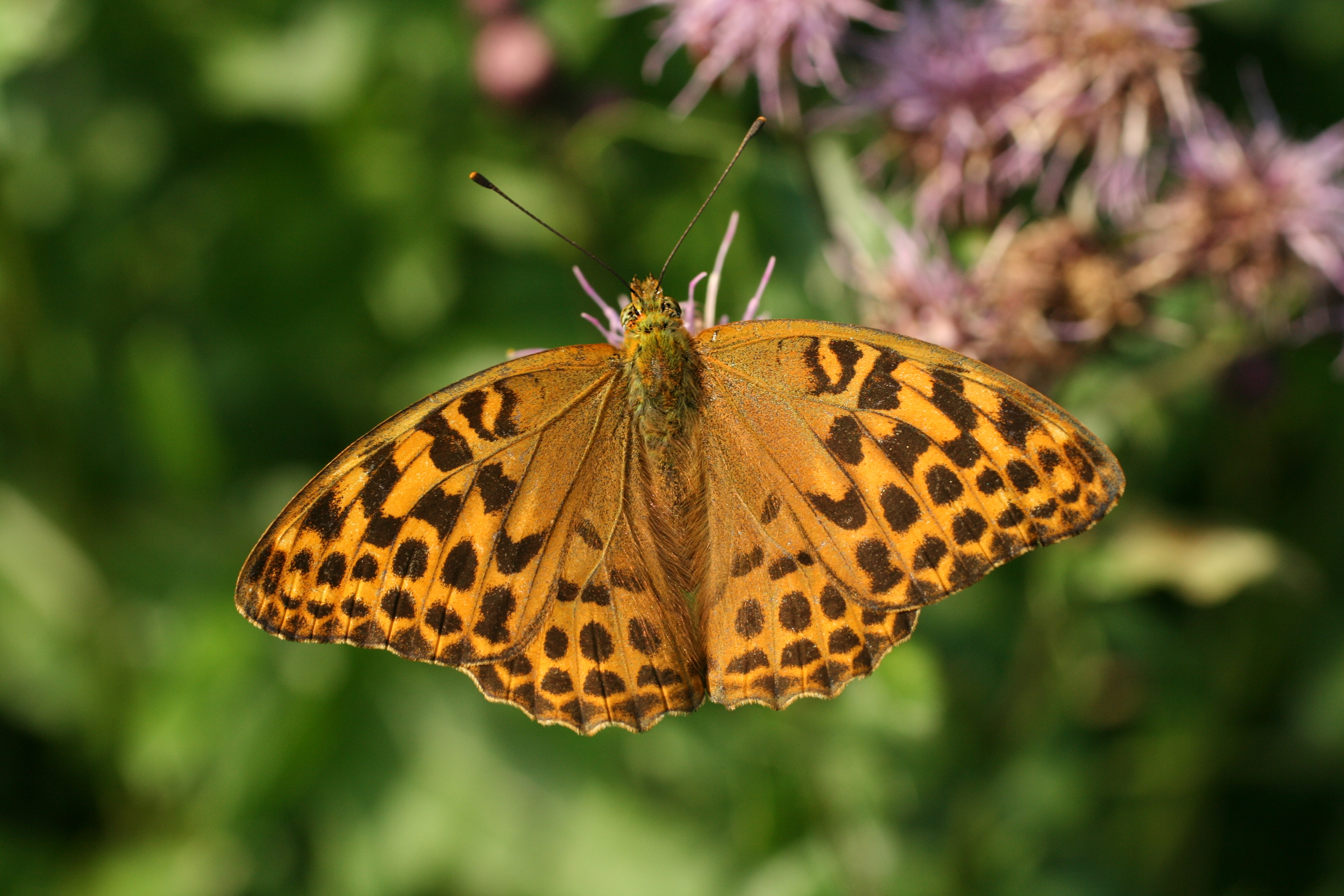 Female argynnis paphia in Lill-Jansskogen.